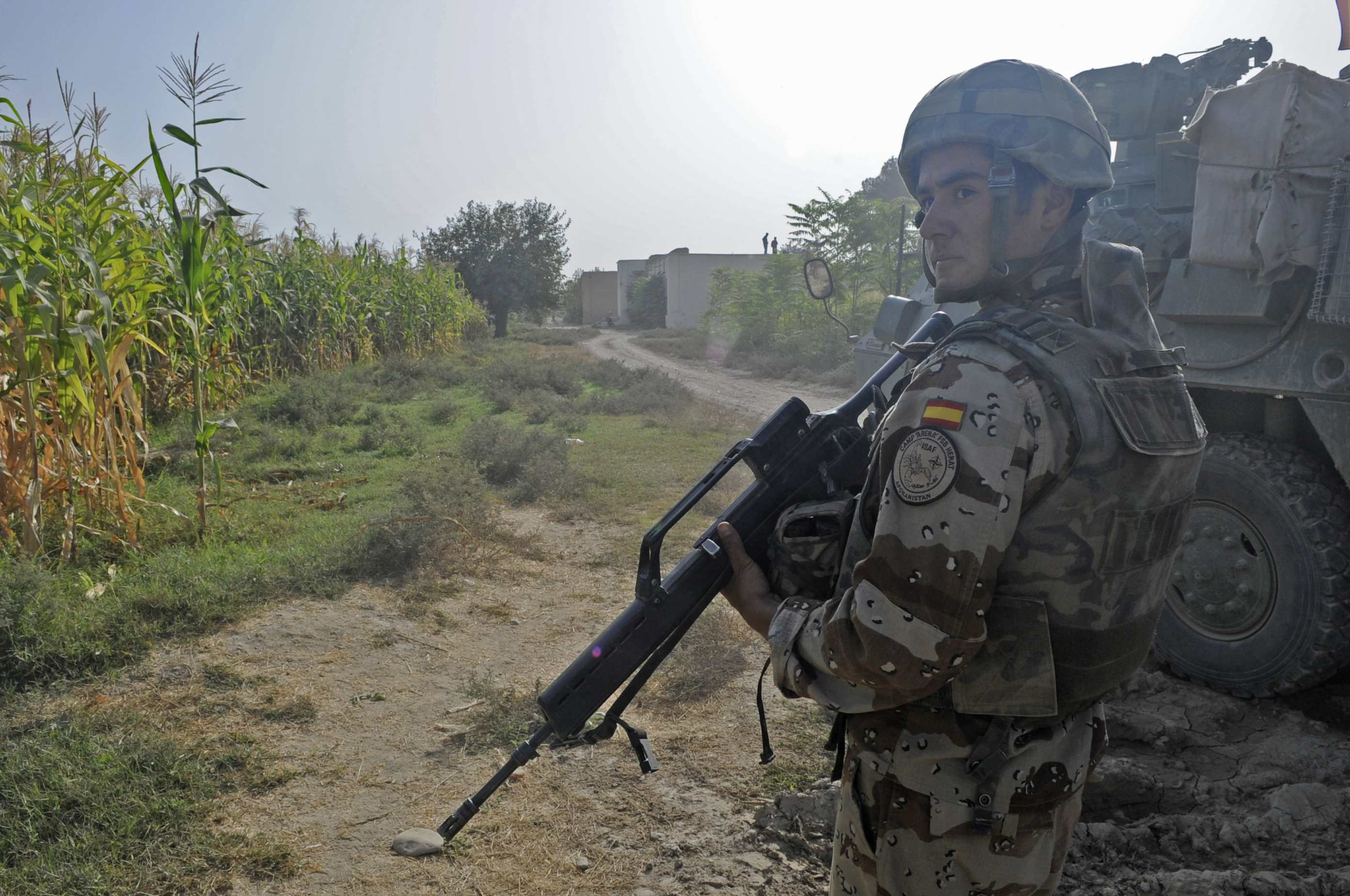 The following is the author's description of the photograph quoted directly from the photograph's Flickr page."BALA MURGHAB, Afghanistan- A Spanish Army Paratroopers provides security at a bridge construction site near International Security Assistance Force Forward Operating Base Bala Murghab, Oct. 2, 2008. ISAF is assisting the Afghan government in extending and exercising its authority and influence across the country, creating the conditions for stabilization and reconstruction. (ISAF photo by U.S. Air Force TSgt Laura K. Smith)(released) "